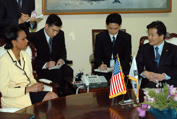 Seoul, South Korea March 20, 2005 Secretary Rice meets with South Korean Unification Minister Chung Dong-young in Seoul. South Korea was the fifth stop on Secretary Rice's trip to Asia.